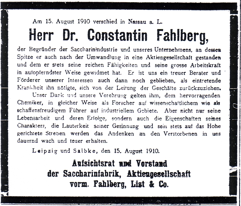 Obituary for Dr. Constantin Fahlberg by the management of the Saccharinfabrik in Salbke, Germany